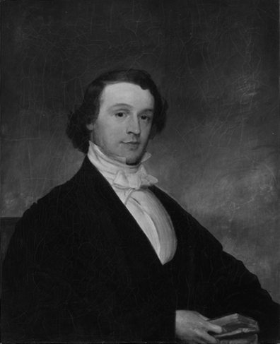 Black and white reproduction of an oil portrait of George Edward Ellis (1814-1894). Materials/Techniques: Oil on canvas. Repository: Harvard Art Museum